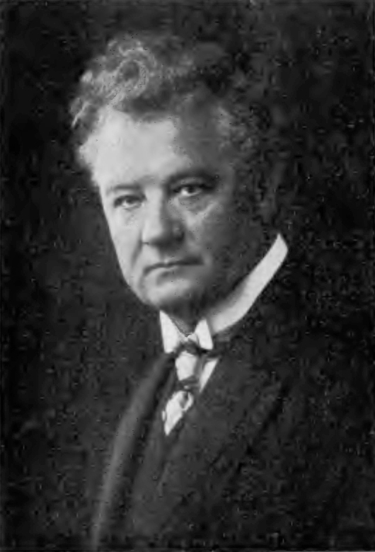 Arnold Schattschneider 1869-1930 German conductor